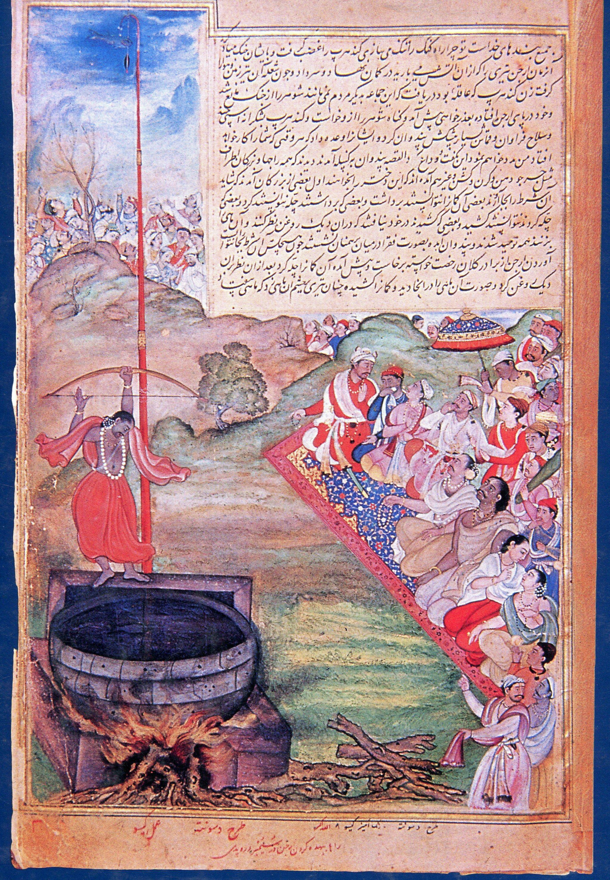 Arjun hits the target: Daswant, described by Abul Fazl as the greatest Indian painter in Akbar's court, depicts in Persian style a scene from the pre-Islamic Indian epic, the Mahabharata